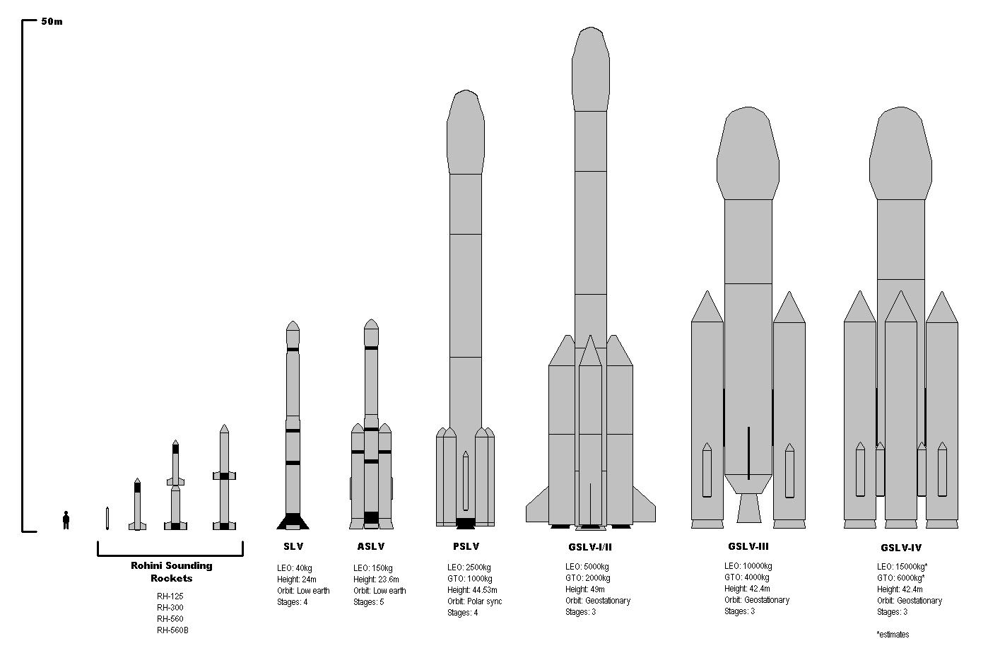 A diagram of various rockets indigenously designed, built and flown by the Indian space programme. The diagram was made by the uploader, and can be used for any purpose by anyone.